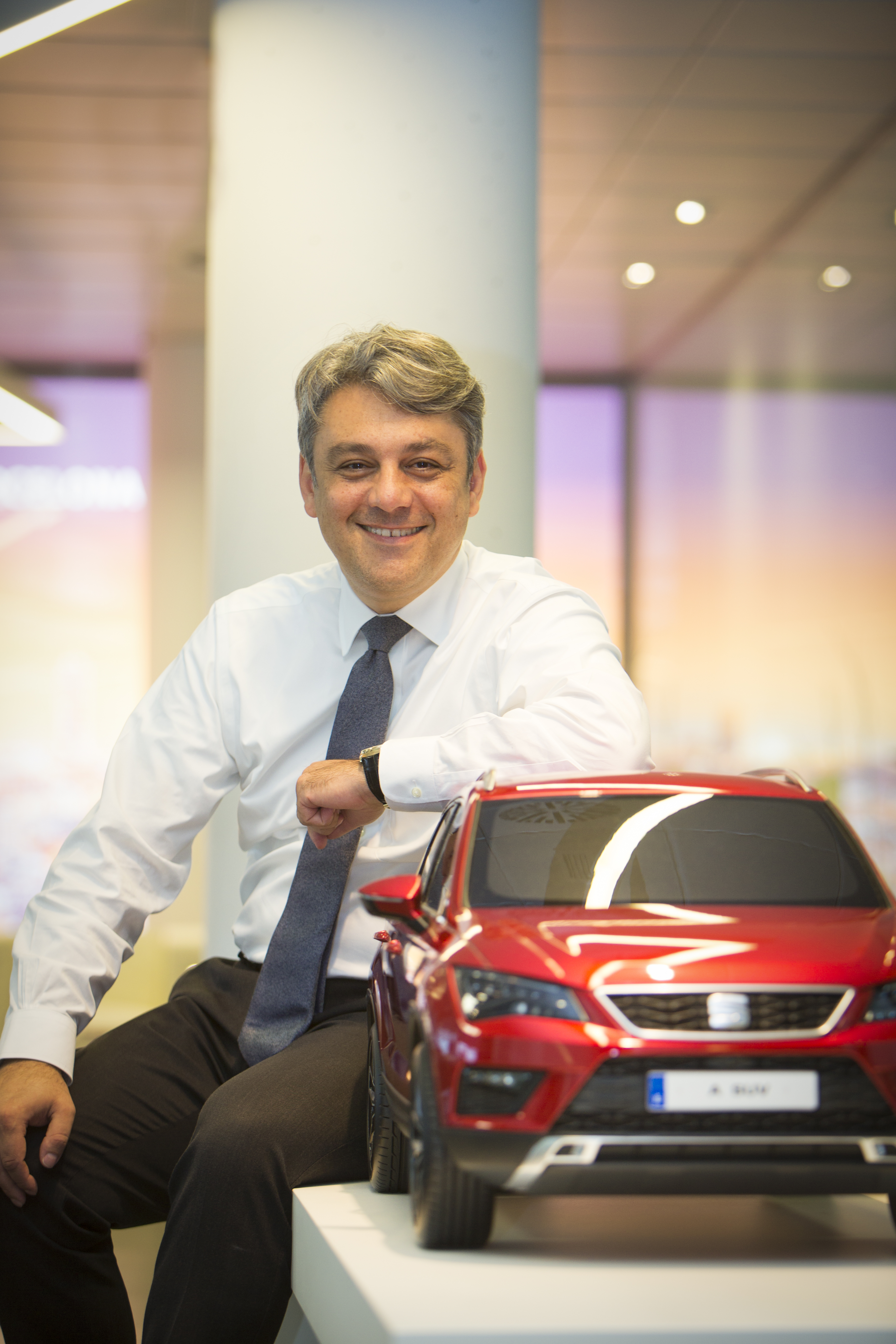 Luca de Meo, President of SEAT